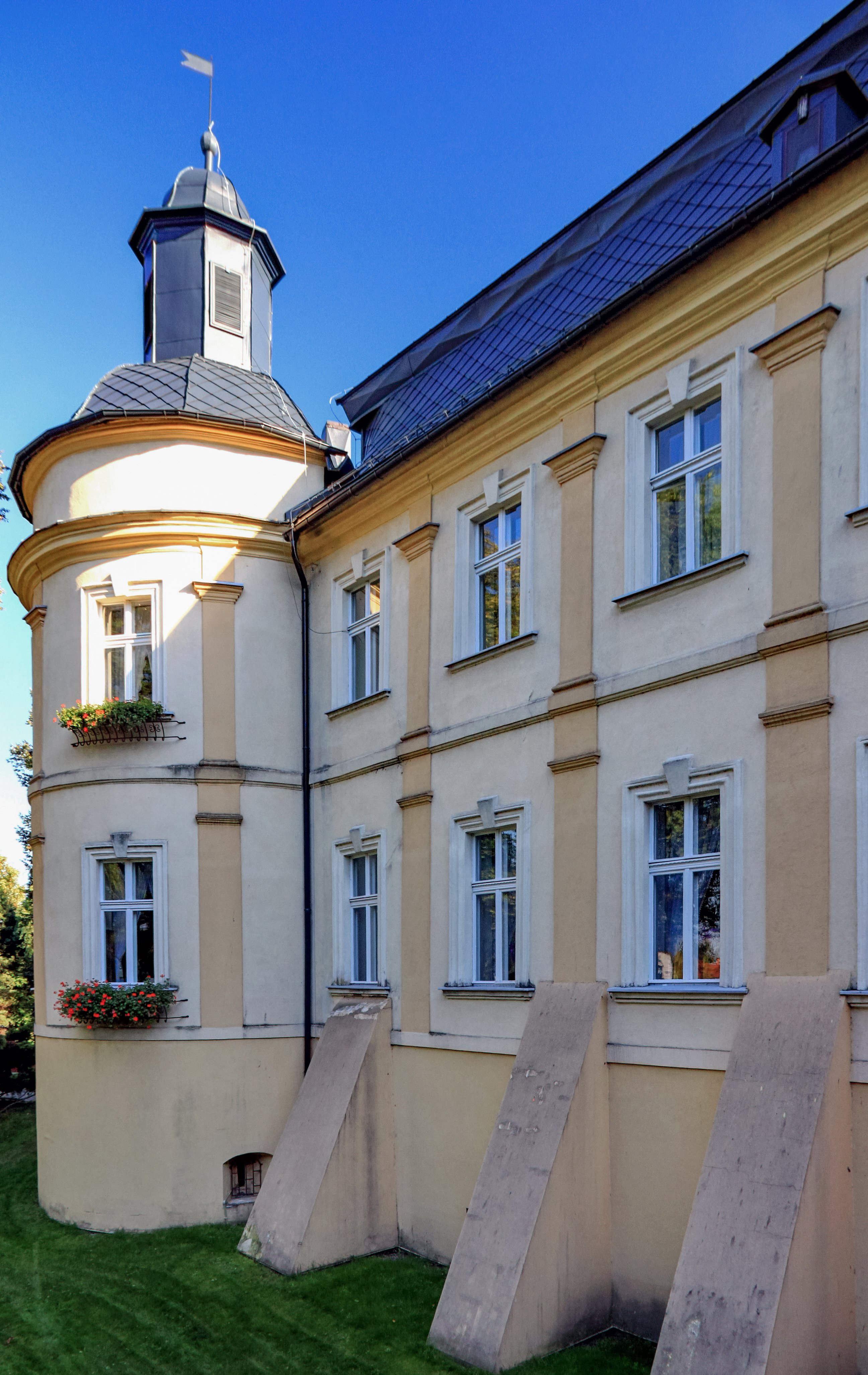 Palace (Bogumin Castle). Chałupki, Silesian Voivodeship, Poland.